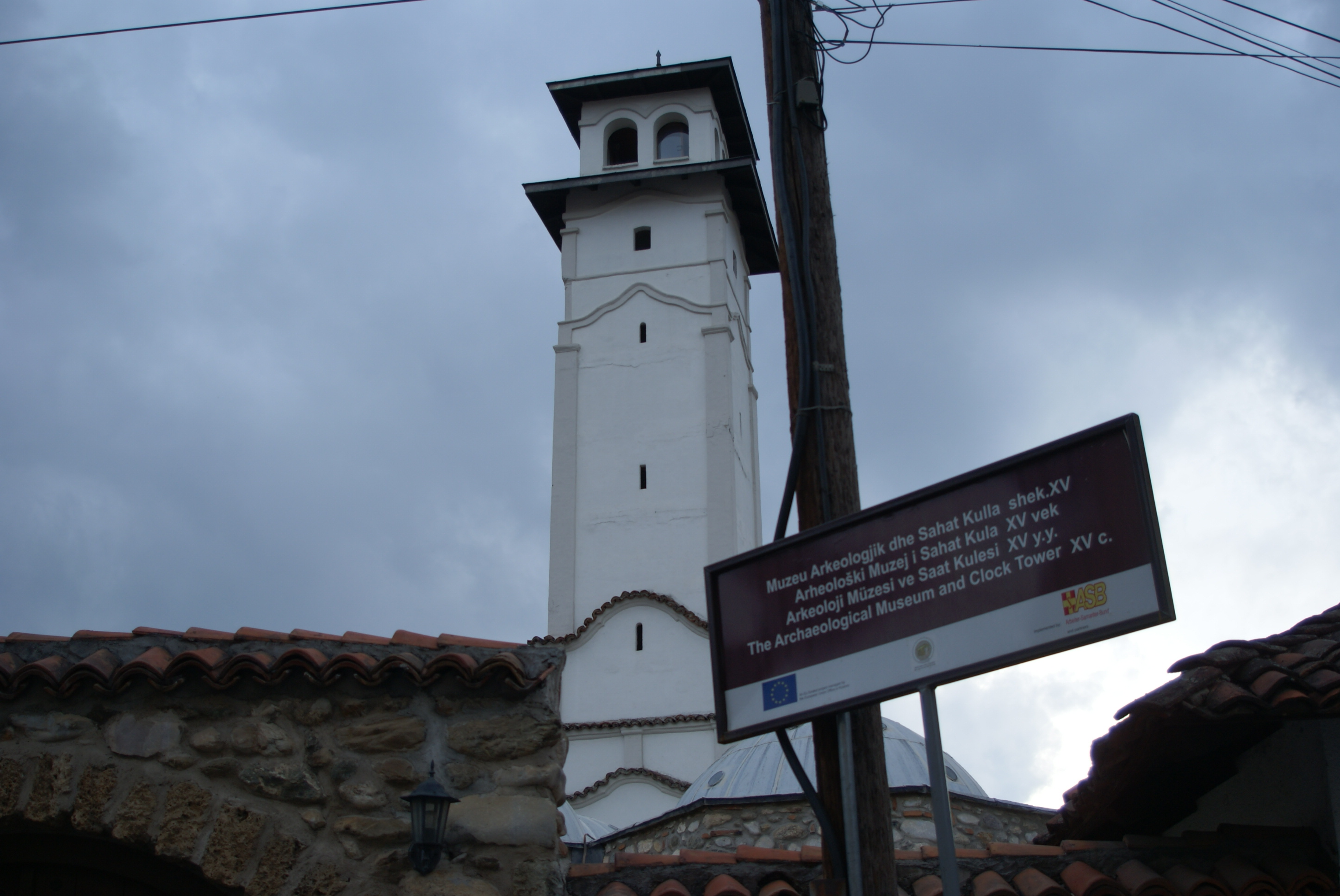 Muzeu Arkeologjik dhe Sahat Kulla